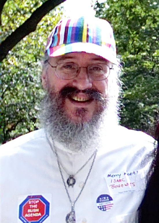 Author and Druidic priest Isaac Bonewits at the 2004 Pagan Pride celebration in Battery Park, New York City.